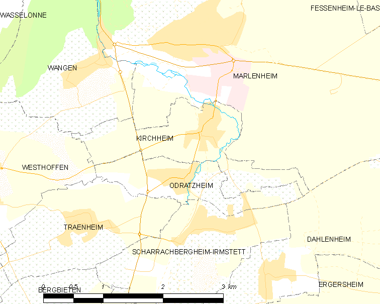 Map of French municipality